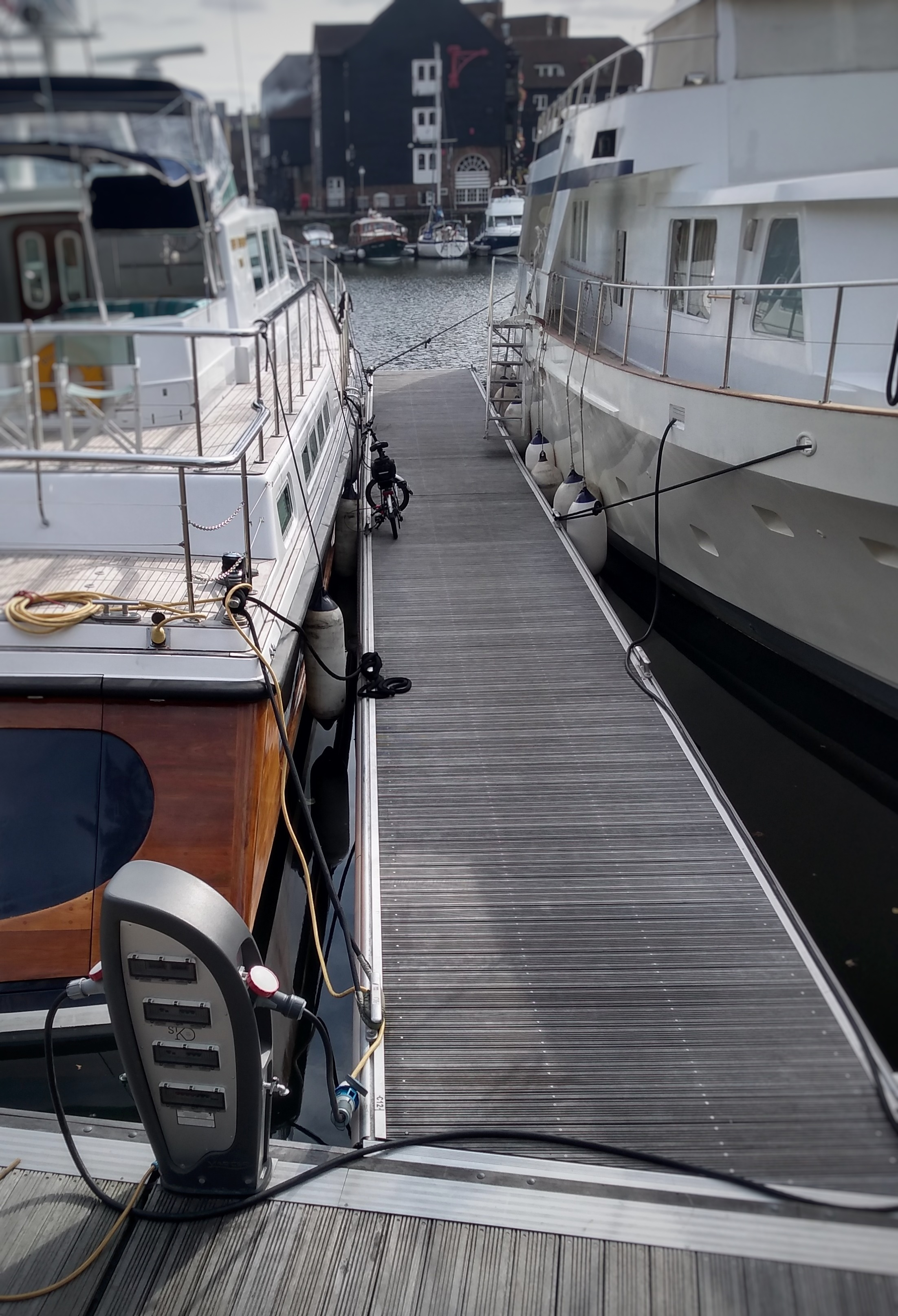 Boats in St Katherine's Dock plugging into power using IP67 splashproof IEC 60309 connectors instead of using their engines